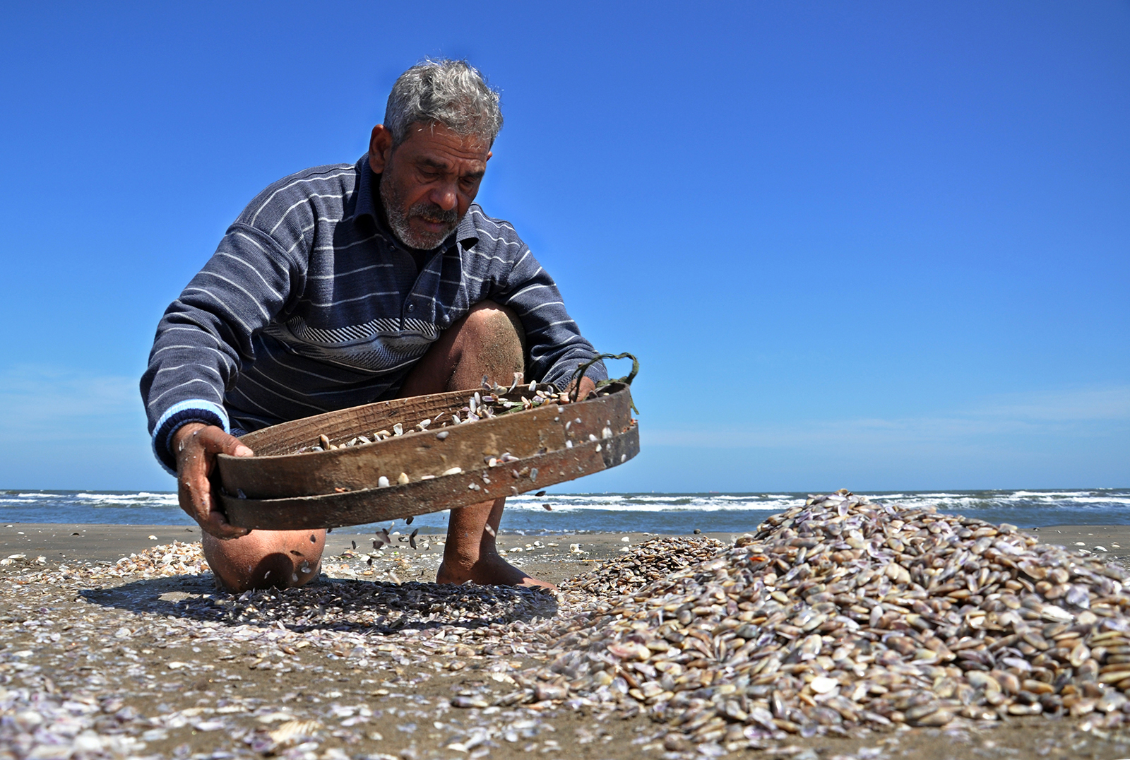 Umm al-Khalloul in Port Said is considered a seafood that Egyptians love and hunters hunt in the winter because they die from the heat of the sun. It is sold in the coastal areas of Egypt such as Port Said, Alexandria, Ismailia and Rashid. This is an image of "African people at work" from Egypt